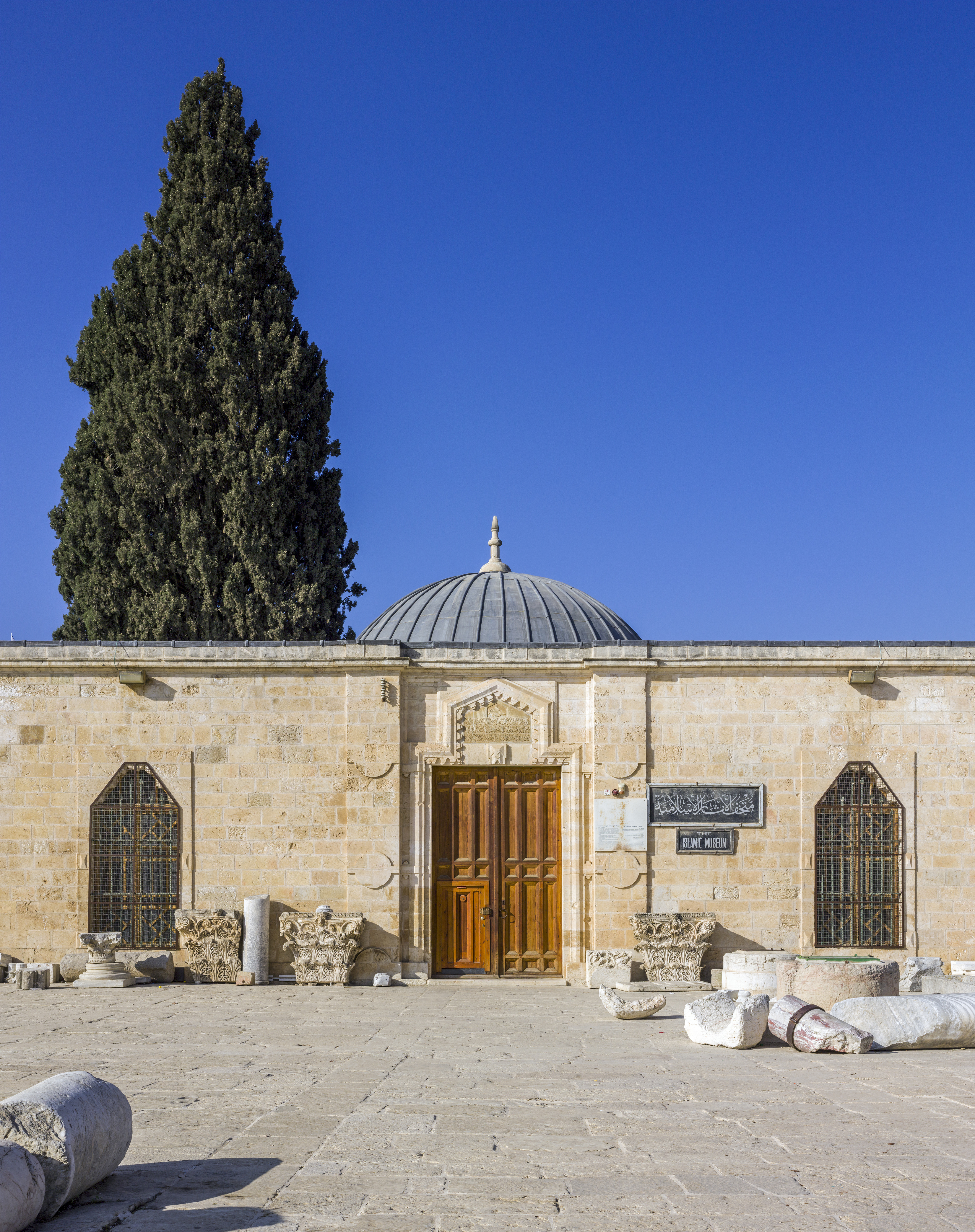 Islamic Museum on the Temple Mount in the Old City of Jerusalem.